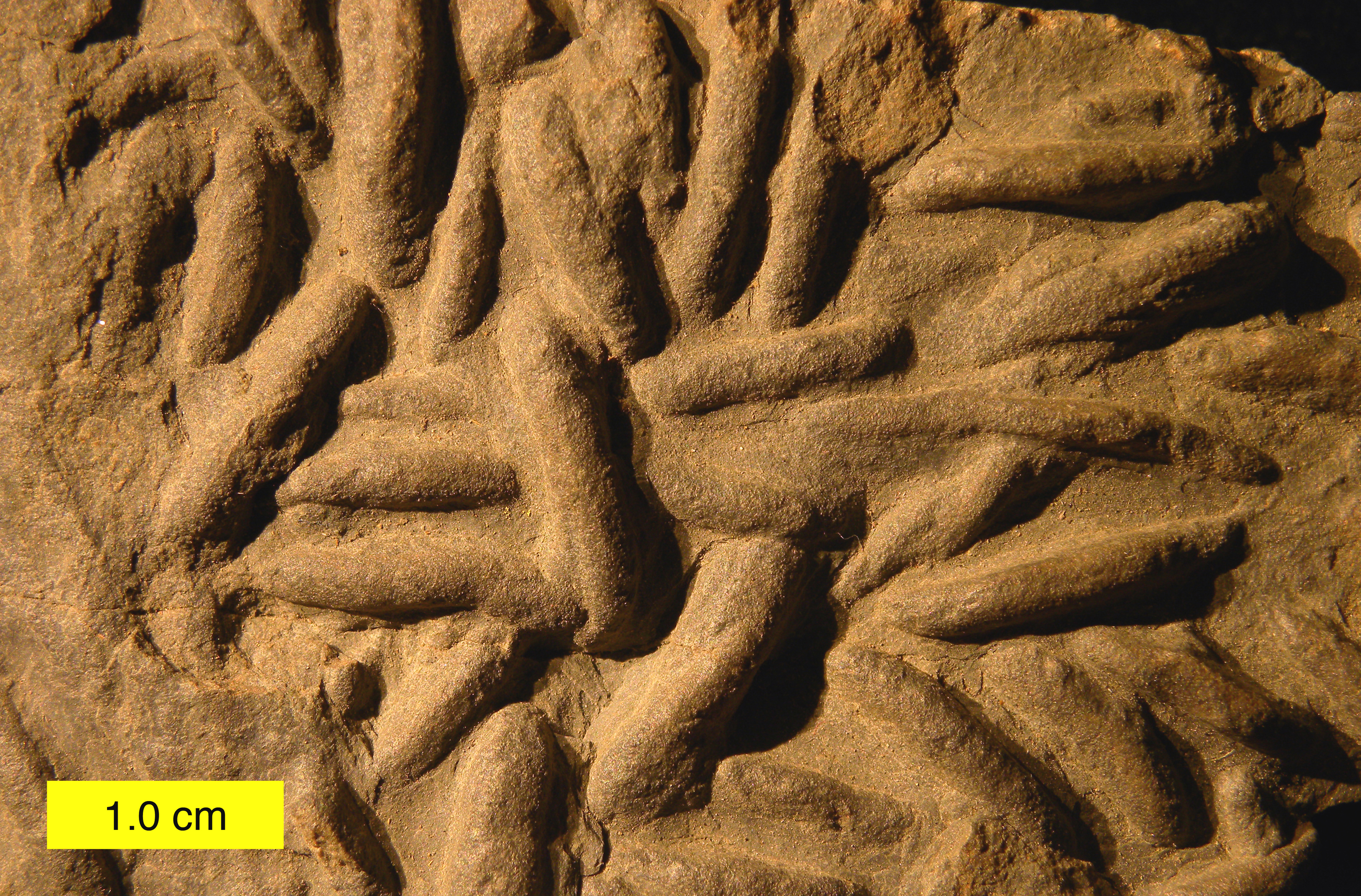 Lockeia (bivalve escape burrows) in the Chagrin Shale (Upper Devonian) of northeastern Ohio.